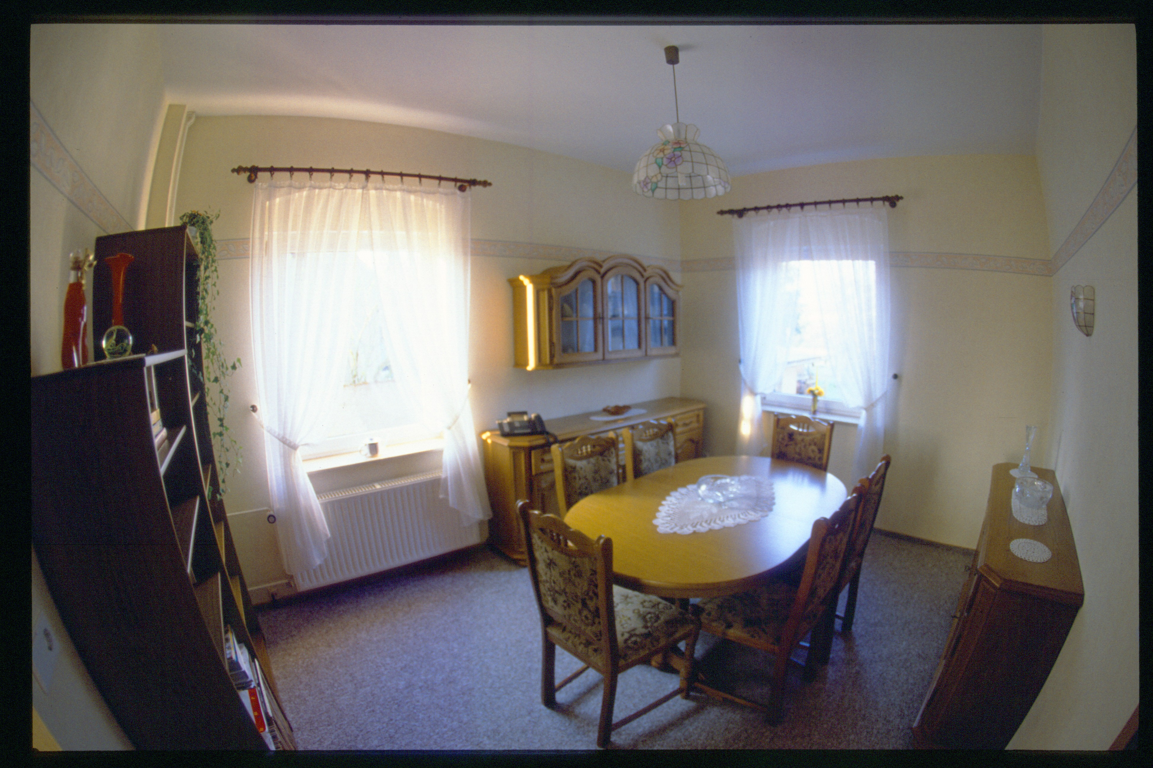 scanned slide, original size, no processing, Fisheye 15mm (type: equisolid angle), 35mm-Film, cropped by slide-frame. Complete room (4 walls, ceiling and floor) Canon EF 15mm F/2.8 Fisheye, EOS 30, CanoScan FS 2710